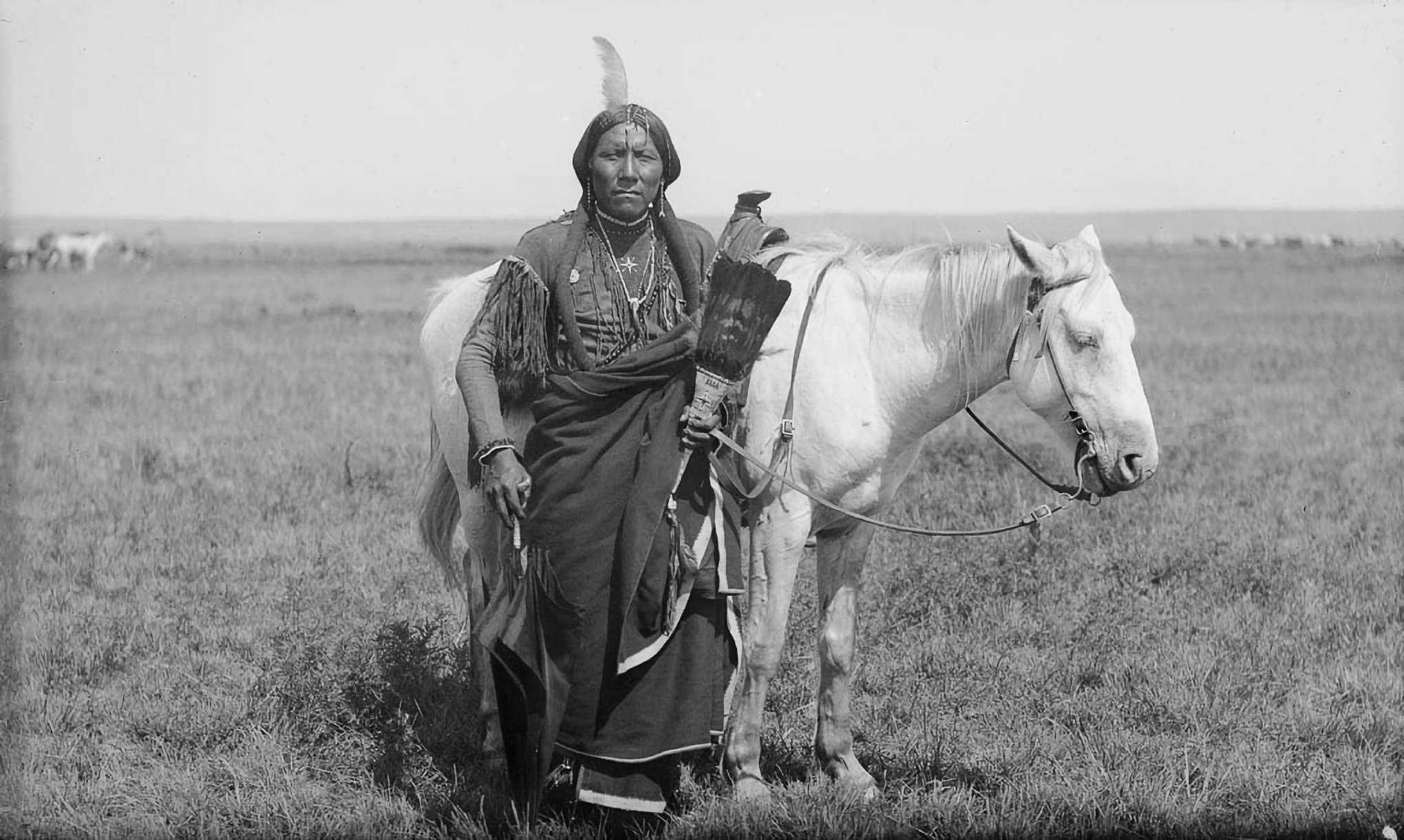 A Comanche warrior named "Ako" and his horse, photographed 1892.